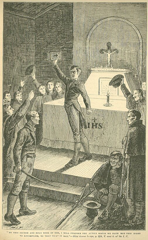 Illustration from Carleton's account, intent on demonizing the perpetrators.